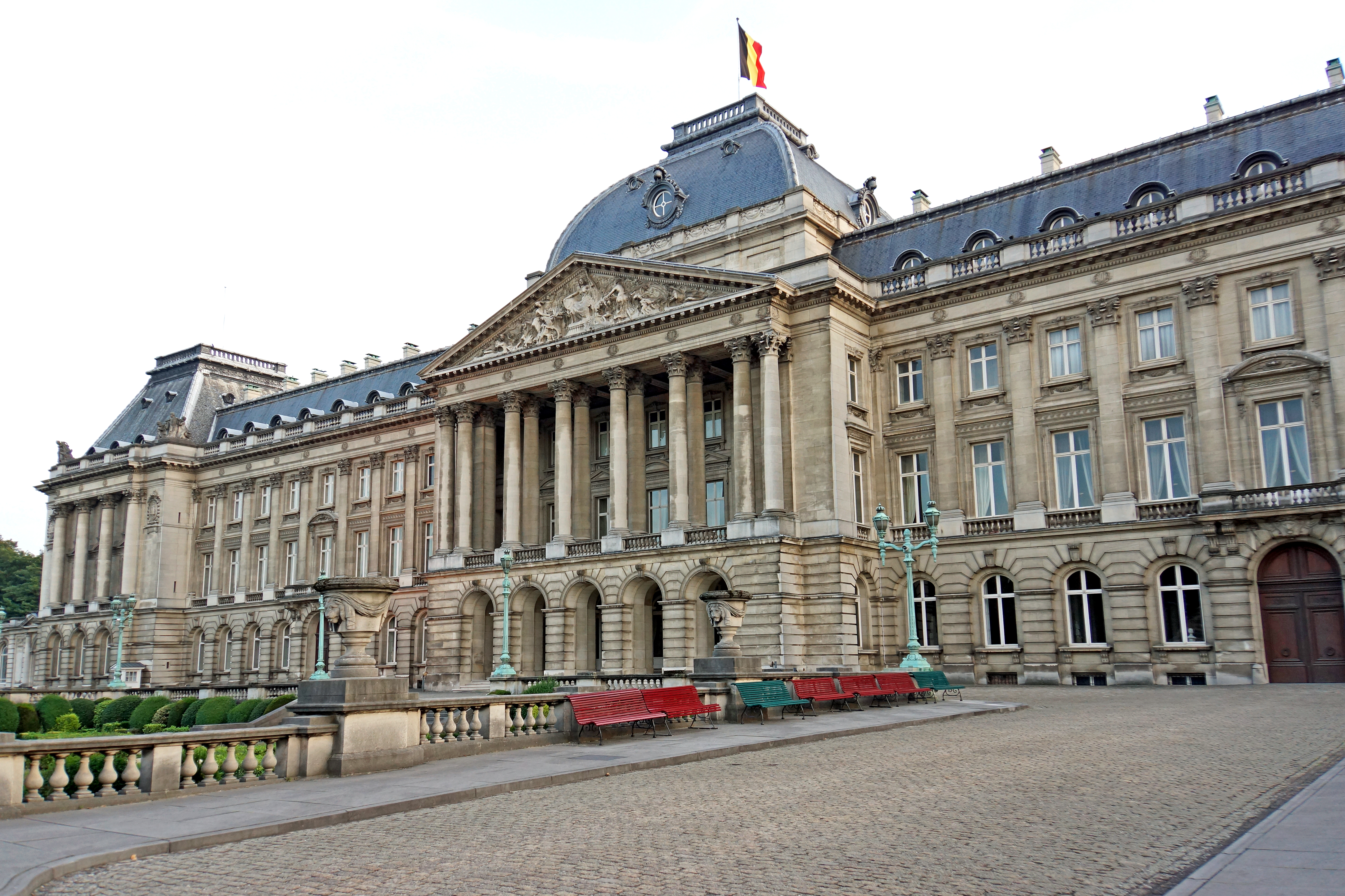 PLEASE, NO invitations or self promotions, THEY WILL BE DELETED. My photos are FREE to use, just give me credit and it would be nice if you let me know, thanks. During the Austrian rule in the 18th century, empress Maria-Theresia preferred not to have the old palace rebuilt because she didn't want the Austrian governor in Brussels to feel himself like a king. Only four houses where built on the site where the palace now stands. William I, king of the reunited Netherlands, who decided in 1815 to rebuild these houses to turn them into a royal palace. This was finished in 1829. One year later Belgium became independent and the new king of Belgium, Leopold I, decided to use the new palace as his residence. It was king Leopold II, who had the original building turned into the palace like we now know it today. The palace was used as the residence of the Belgian King until after the death of Queen Astrid in 1935, when her husband Leopold III, decided to move his residence to the castle of Laken. His successors also resided in Laken. The royal palace in the center is now used as the office of the king and as the residence of the crown prince. The royal palace houses a museum called Belle-vue with a collection about the Belgian royal dynasty.